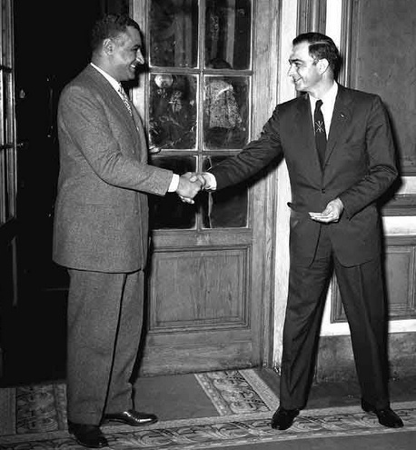 Egyptian President receiving US Ambassador Henry A. Byroade in Cairo